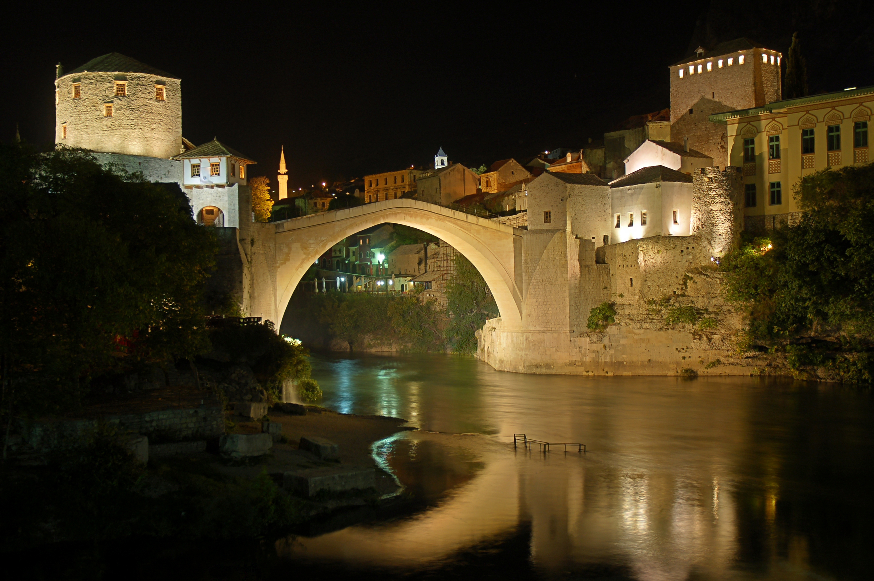 The Old Bridge (Stari Most) after sunset